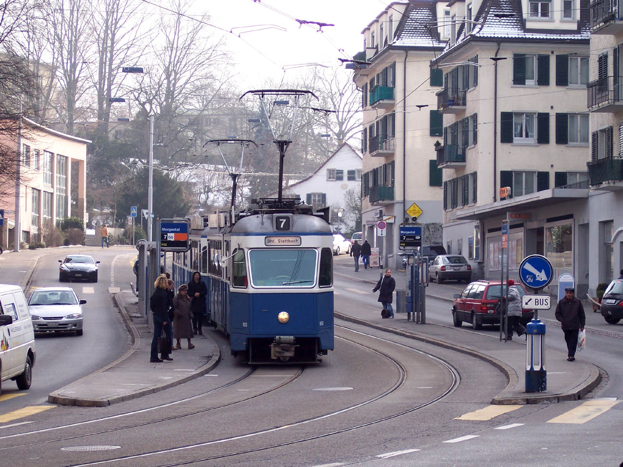 Trams in Zürich A route 7 tram, formed by a pair of Be 4/6 "Mirage", stops at Morgental stop in the borough of Wollishofen. The stop is on islands in the road, cars have to pass on the outside.